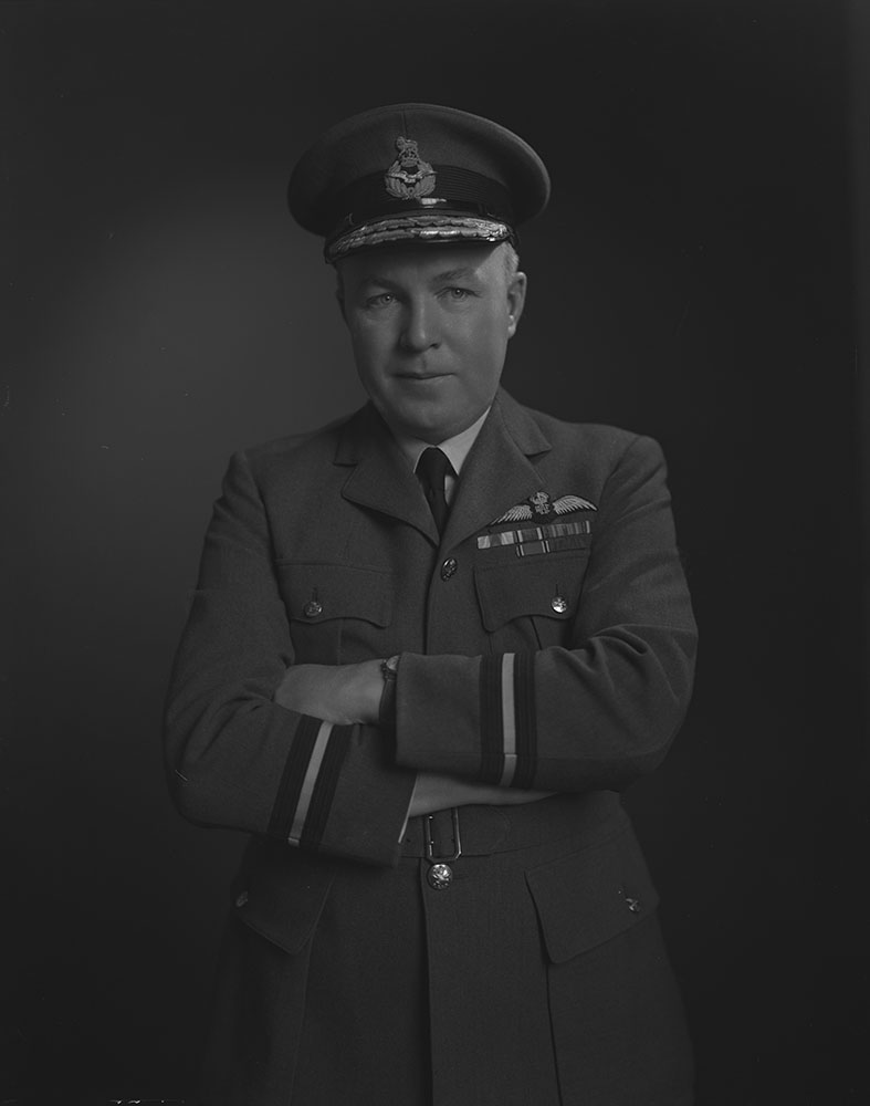 Air Commodore G.O. Johnson (1940), Yousuf Karsh, Library and Archives Canada